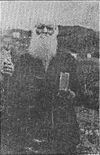 Manuel Gomes Perneta, from one of the few Presbyterian families remaining in Madeira after the Exile of the Protestants. The Bible he's holding is one of the very few which wasn't destroyed during the Catholic persecutions, and is todat at display in the Presbyterian Church of Funchal (Scots Kirk).